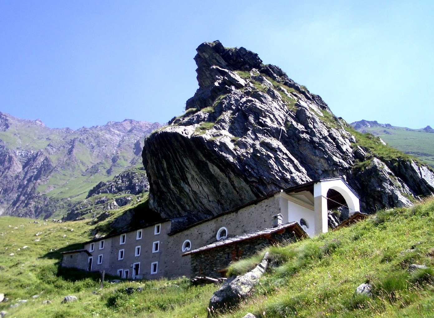 Sanctuary of San Besso, Val Soana, Piedmont, Italy